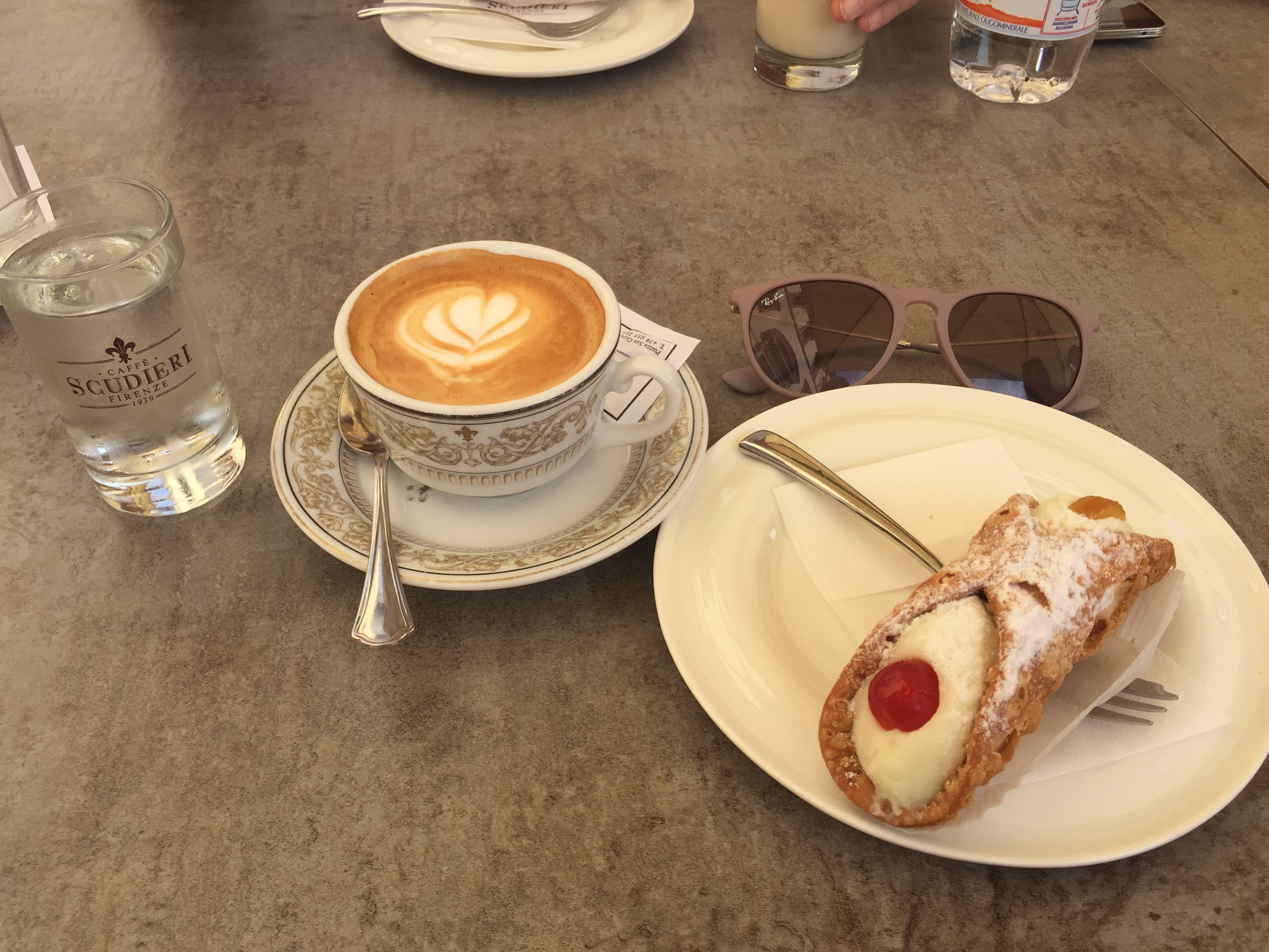 cannoli and cappuccino